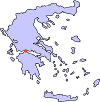 Modified heavily by User:Aris Katsaris from Image:GreecePeloponnesus.png in order to show location of Rio-Antirio bridge.